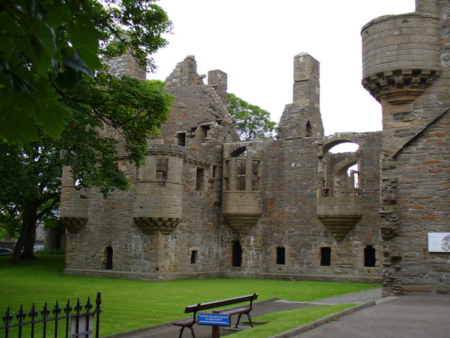 Earl's Palace, Kirkwall Sandstone ruins of the old ornate home of the Sinclair Earls of Orkney. They moved here from Birsay.